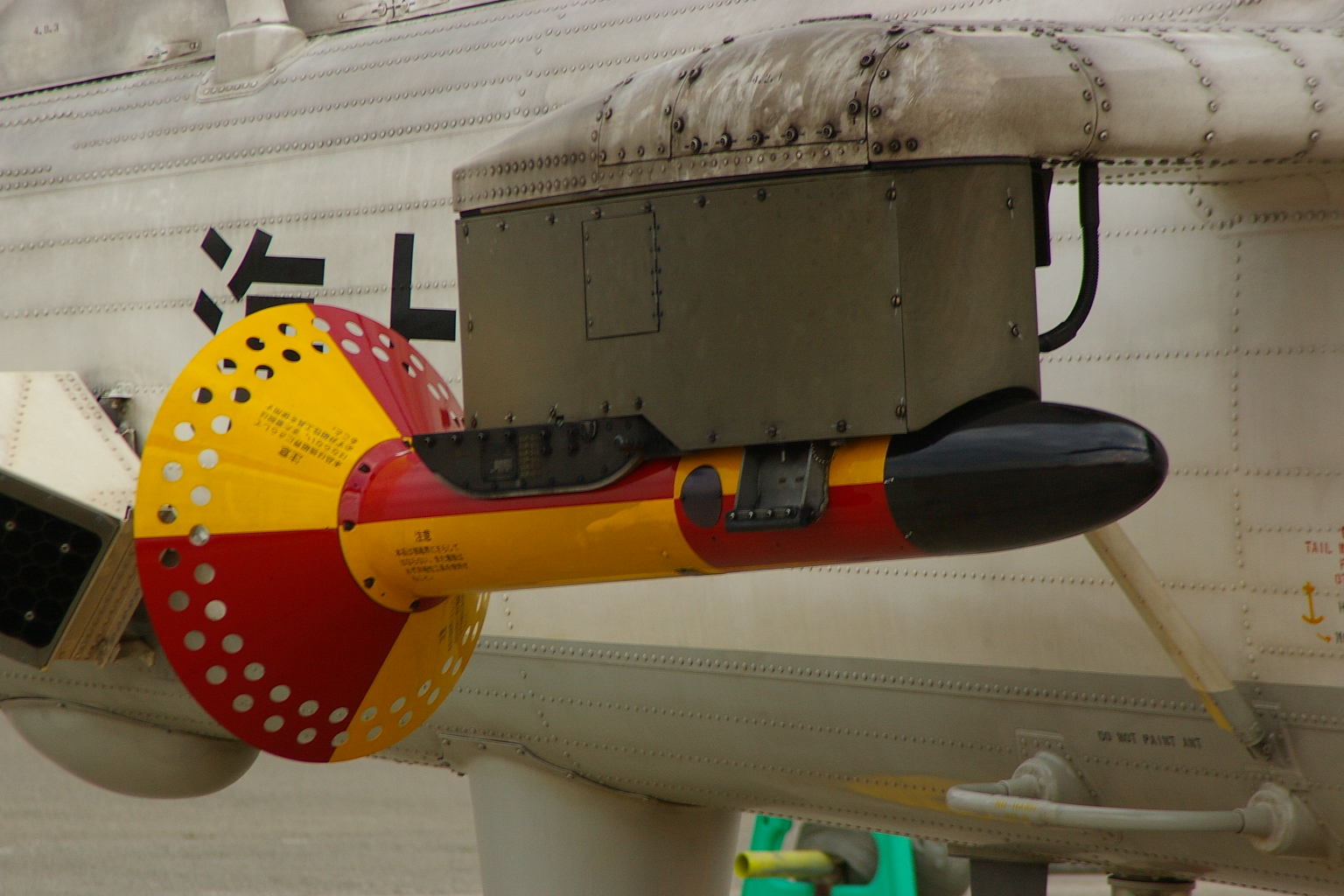 A/NASQ-81(V) MAD, on JMSDF SH-60J.